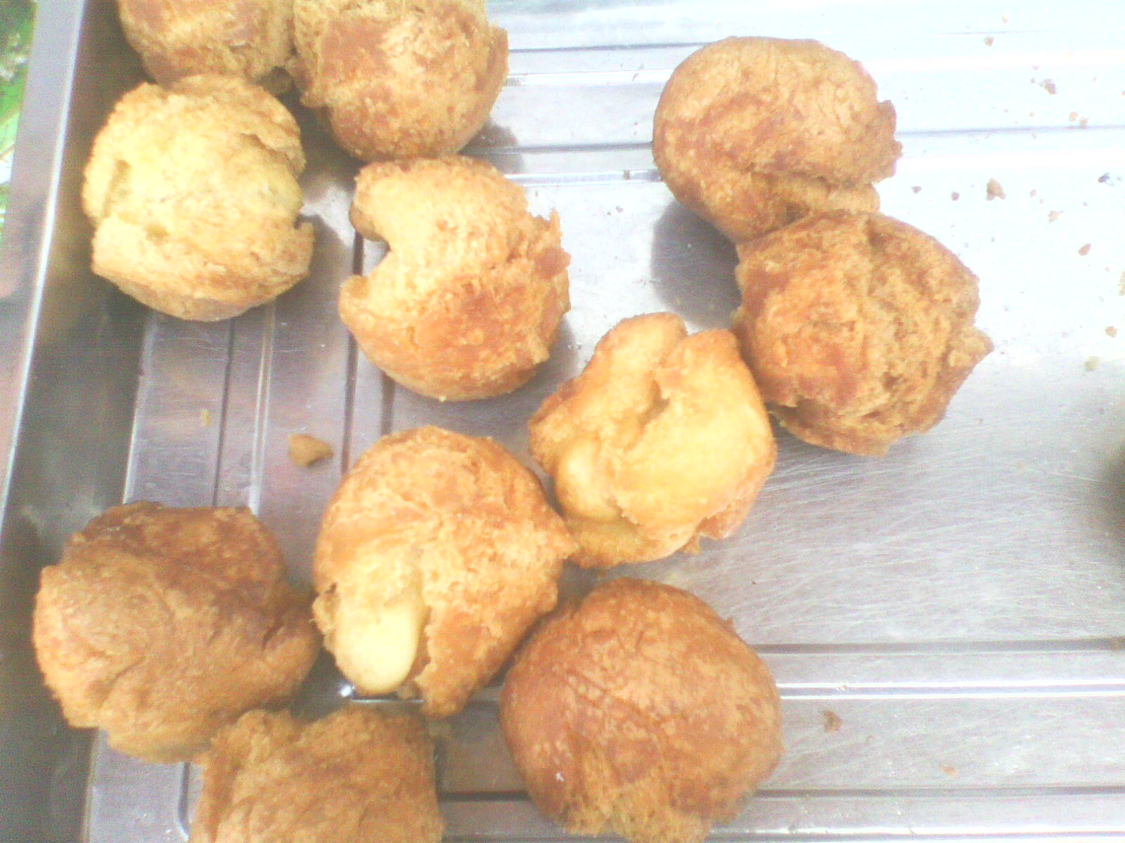 mofo baolina